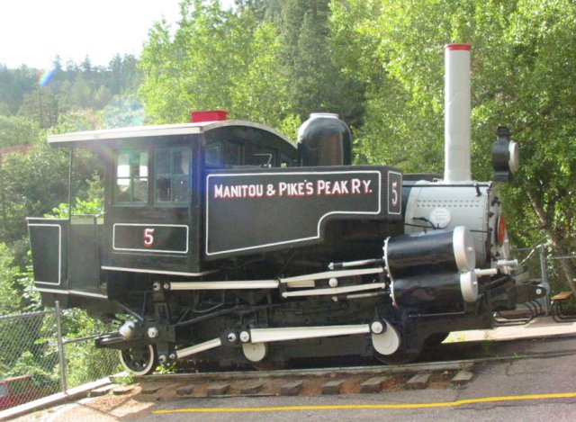 Preserved Manitou and Pike's Peak Railway locomotive number 5 at the Manitou Springs depot